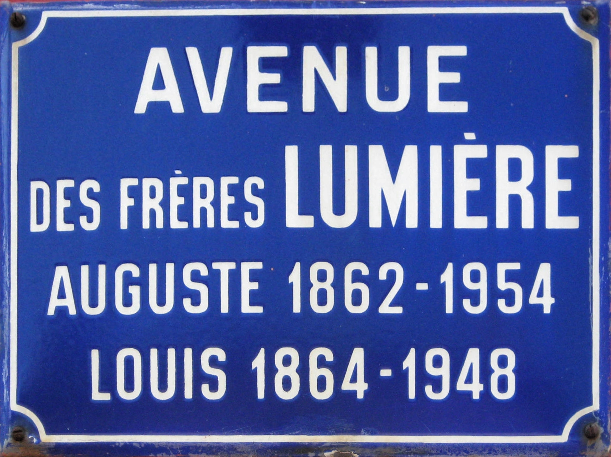 Avenue des Frères Lumière, Lyon